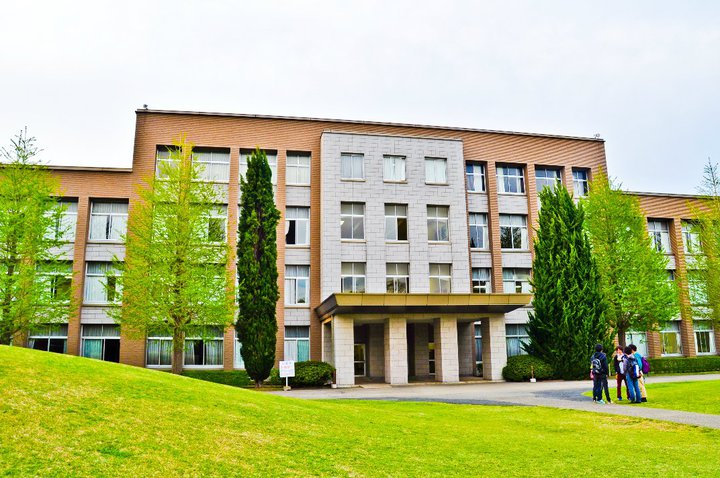 One of the campus buildings inside the International Christian University